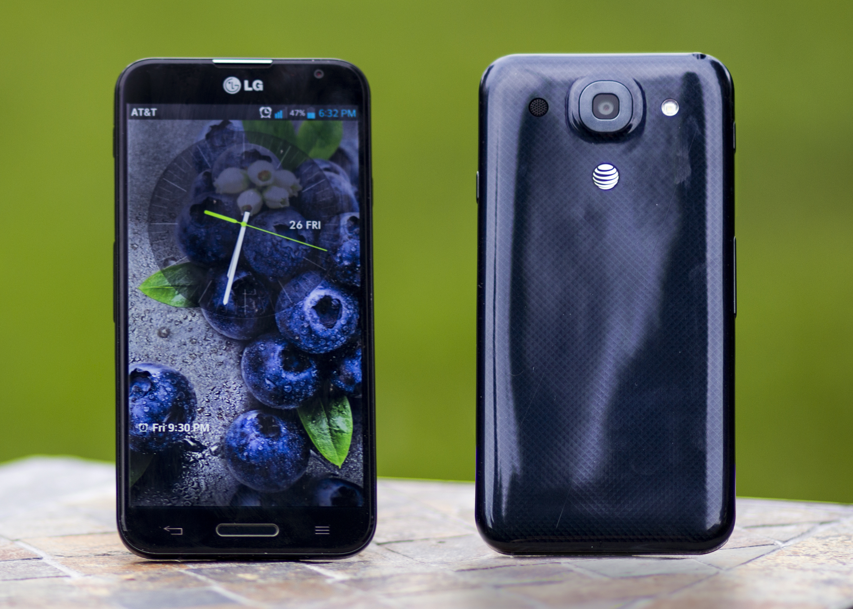 A double exposure of a US version Optimus G Pro cell phone by LG.